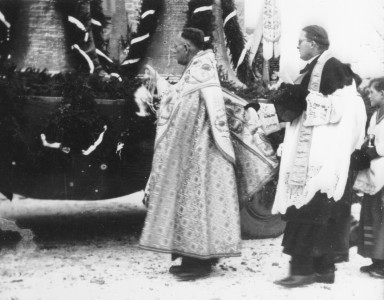 Die Weihe der Neuen Glocken in Weichering